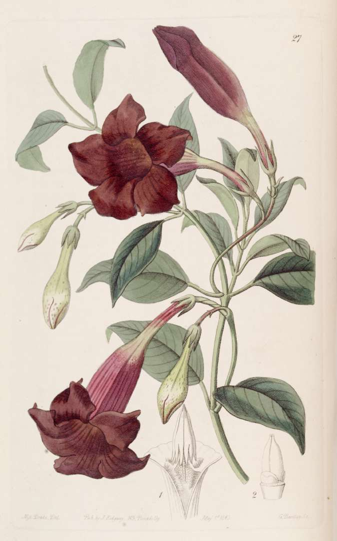 Mandevilla atroviolacea, as Echites atropurpureus Lindley